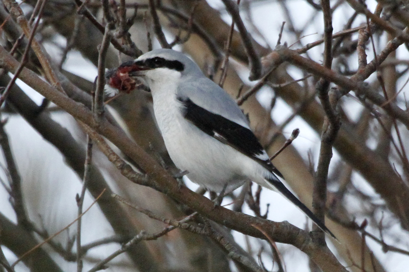 Northern Shrike Lanius excubitor borealis Arvada, Jefferson Co., Colorado. eBird Checklist